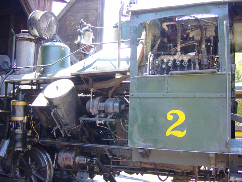 Medium technical view of Heisler locomotive Toulumne at the train shed of Roaring Camp and Big Trees Narrow-Gauge Railroad railroad, Felton, California. Image taken August 1, 2004 by User:Leonard G..